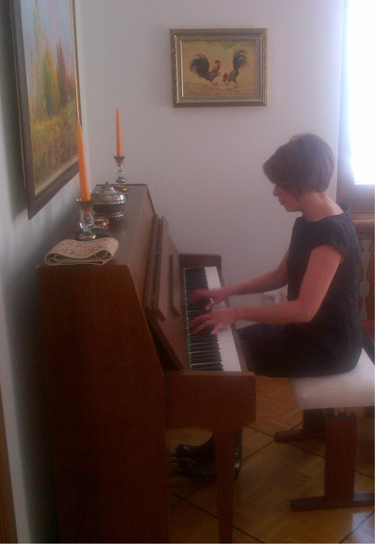 Rüya Taner practicing the piano.